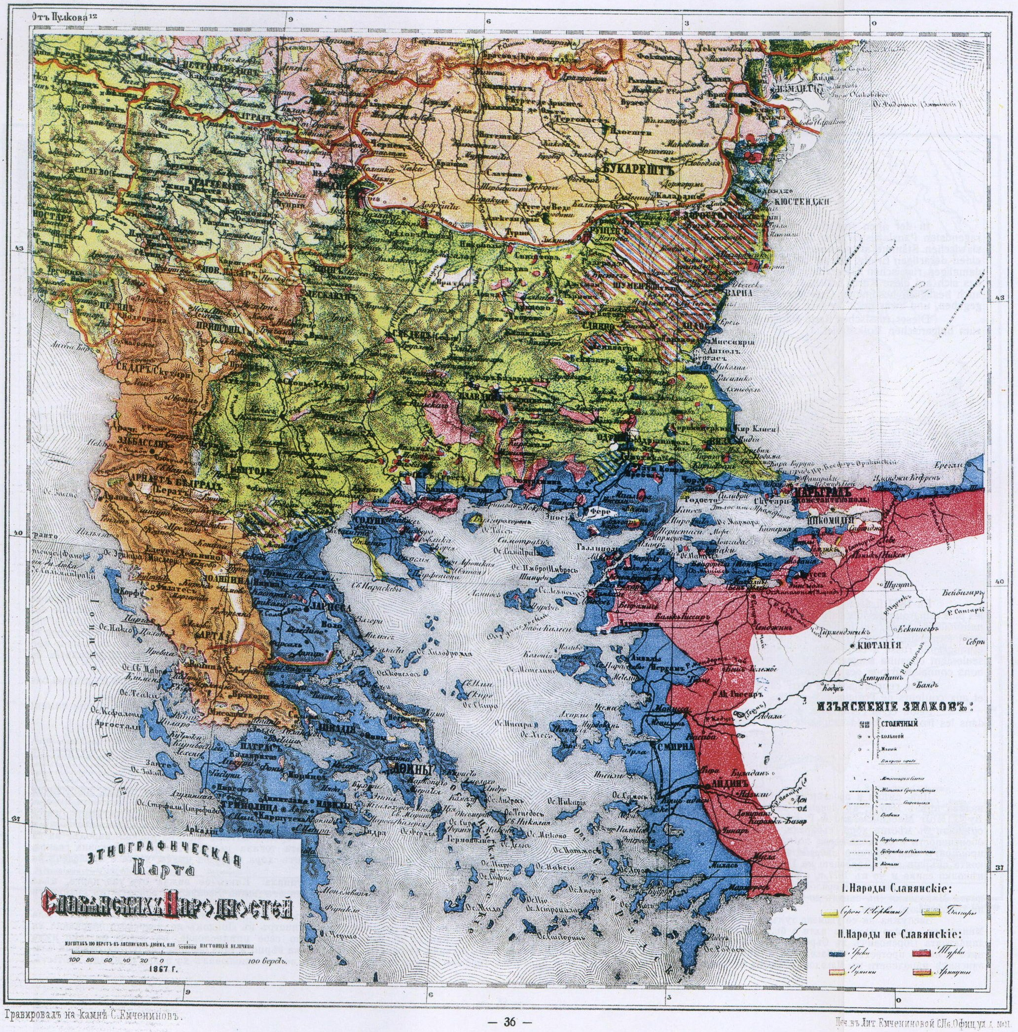 Ethnographic map of Slavic nations on the Balkans